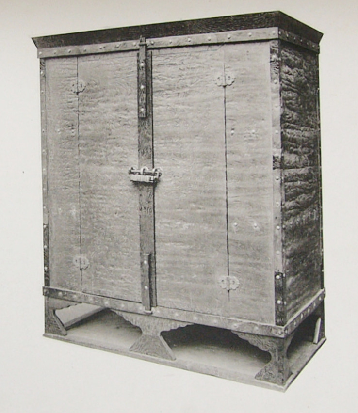 RED LACQUERED CABINET (NORTH2) KEYAKI-wood. 100.0cm high, 63.7cm wide, 40.6cm depth. 7th century, This cabinet was inheritated throught 5 emperors. In Shosoin Collection in Nara, administrated to Imperial Agency, Japan